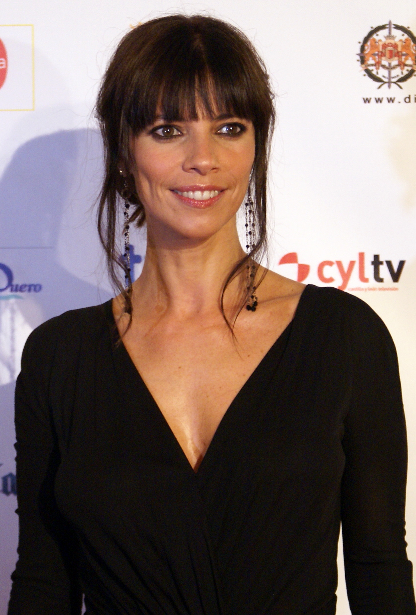 Maribel Verdú, Spanish actress.